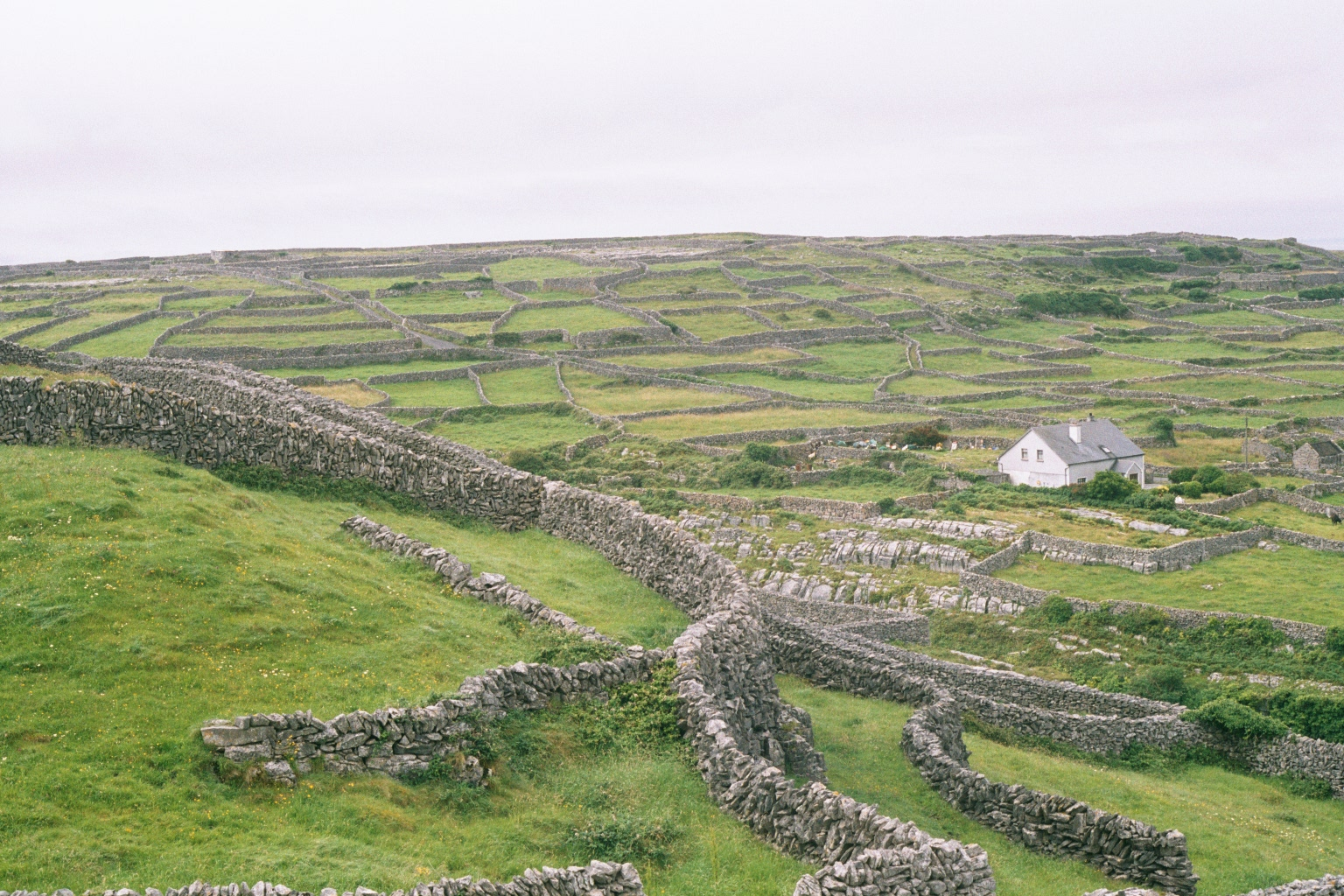 Little gardens handmade from seaweed and sand, protected from erosion by stone walls: Typical scenery on Inisheer (Inis Oírr), Aran Islands.